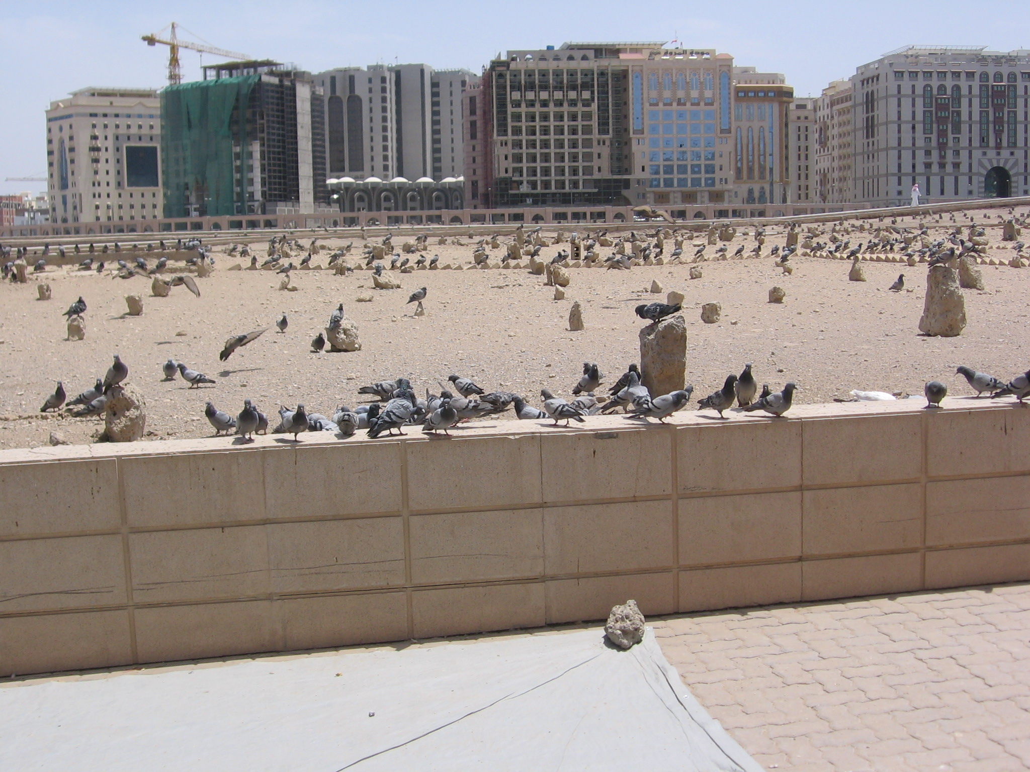 Jannat al-Baqi in Medina Saudi Arabia